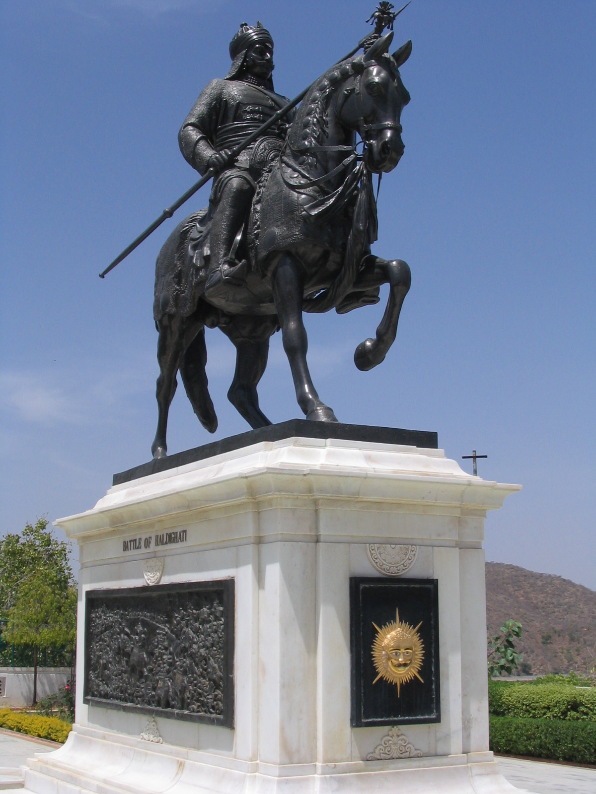 Statue of Maharana Pratap of Mewar, commemorating the Battle of Haldighati, City Palace, Udaipur.